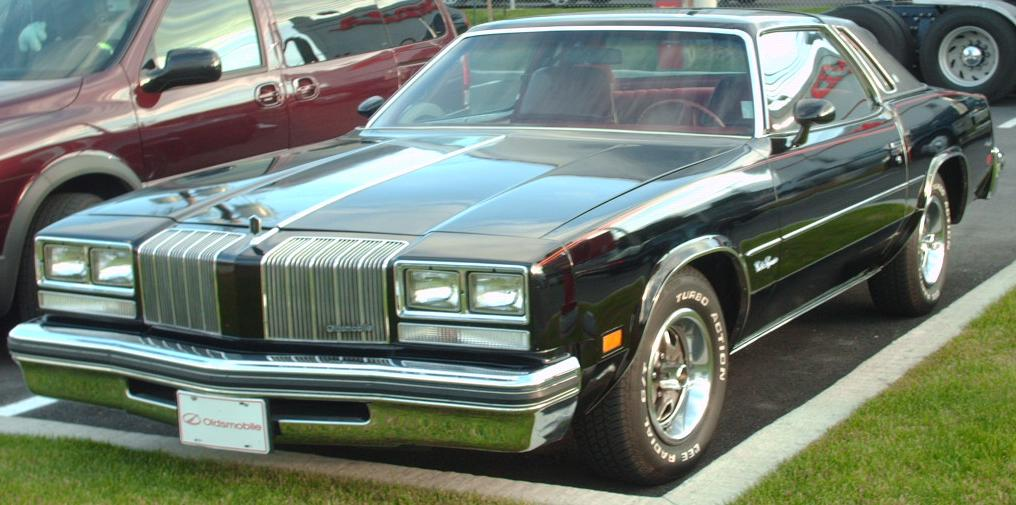 1977 Oldsmobile Cutlass Supreme photographed in Montreal, Quebec, Canada at Gibeau Orange Julep.